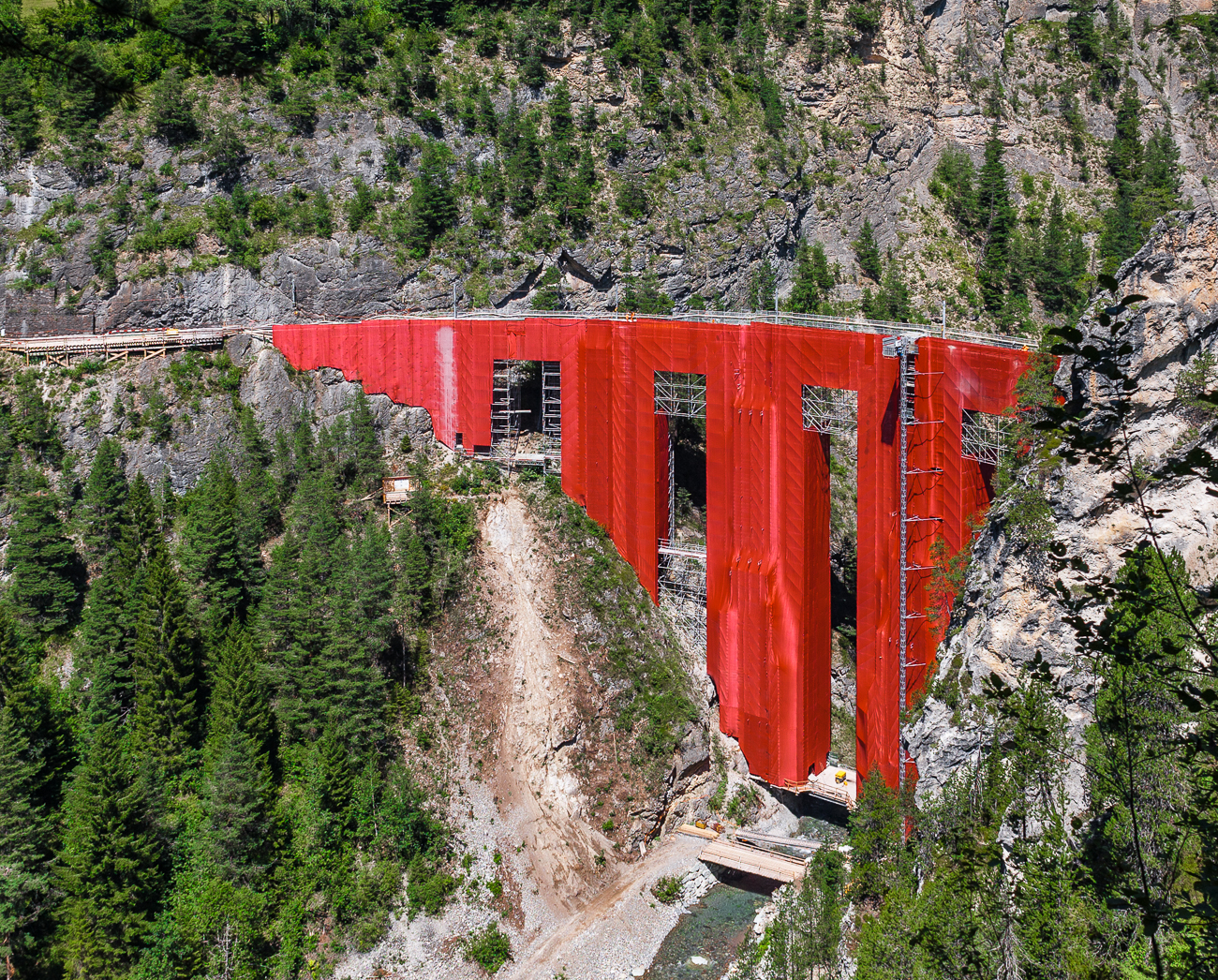 Landwasser viaduct of the Rhaetian Railway during the 2009 renovation in the canton of Graubünden, Switzerland